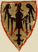 Attributed Imperial coat of arms of Henry VI, Holy Roman Emperor (died 1197), illustration circa 1305 from: Codex Manesse, fol. 6r, Heinrich VI.